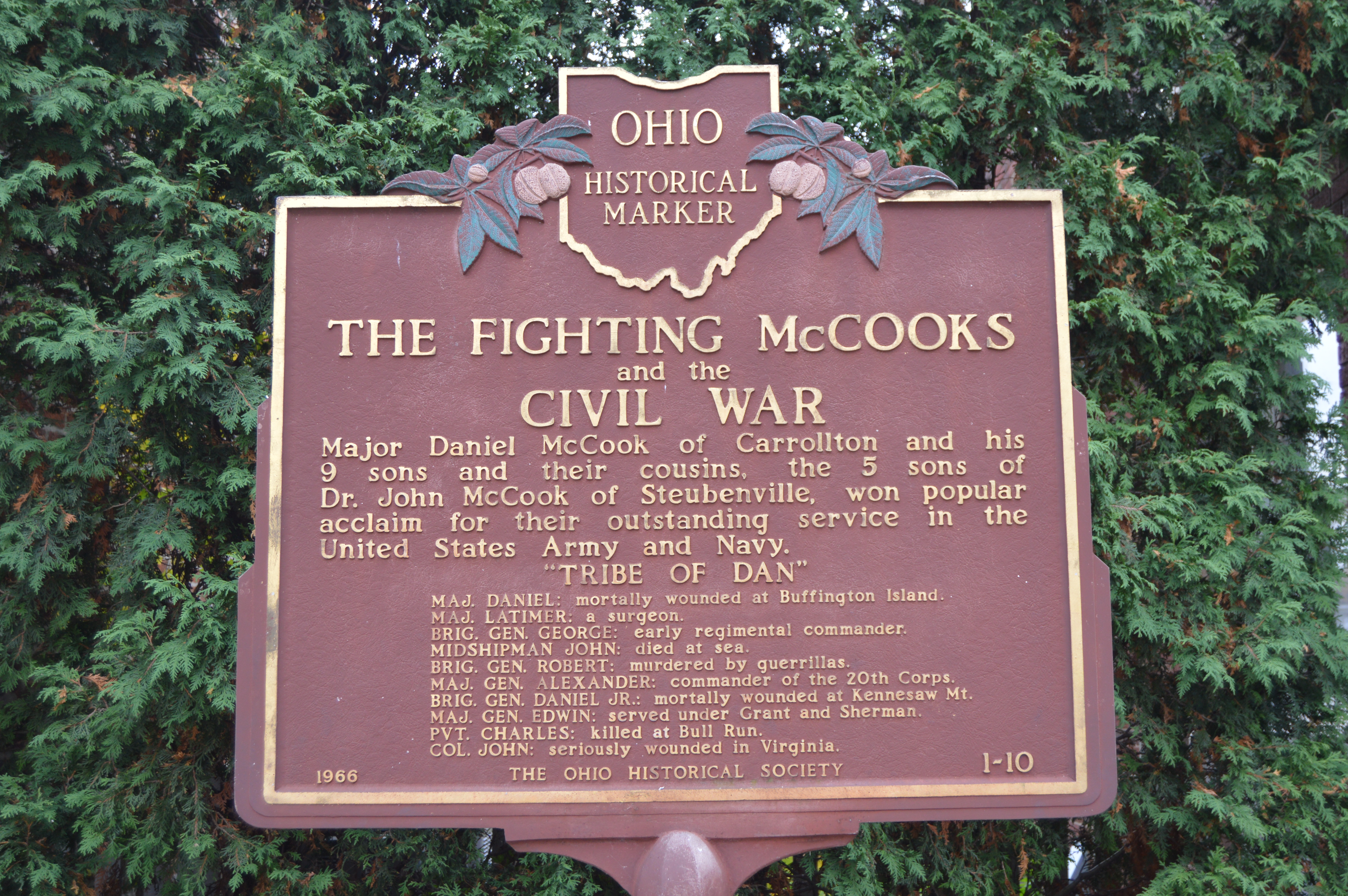 Historical marker in front of the Daniel McCook House on the public square in Carrollton, Ohio, United States.